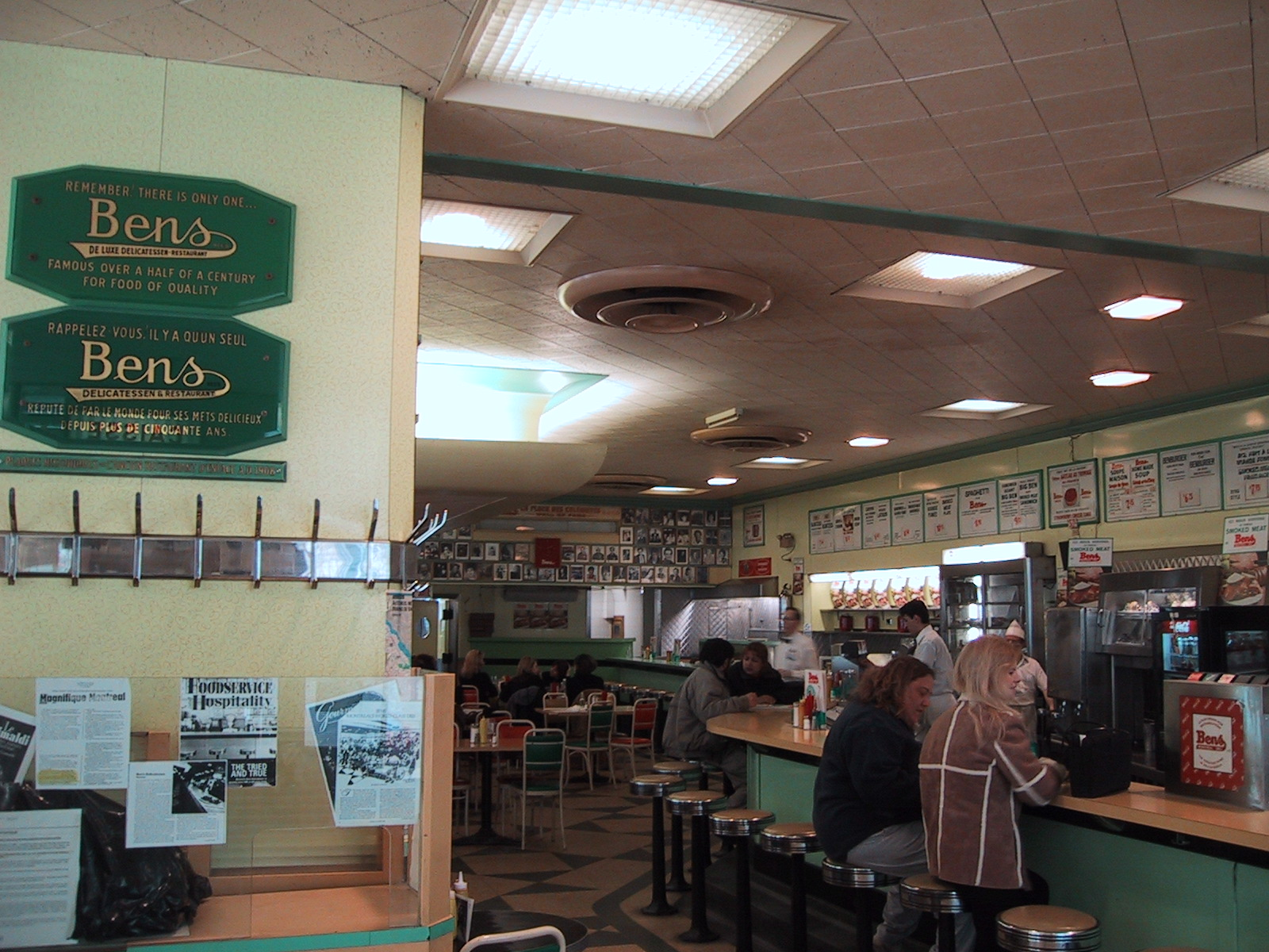 Inside of Bens De Luxe Delicatessen & Restaurant in 2002